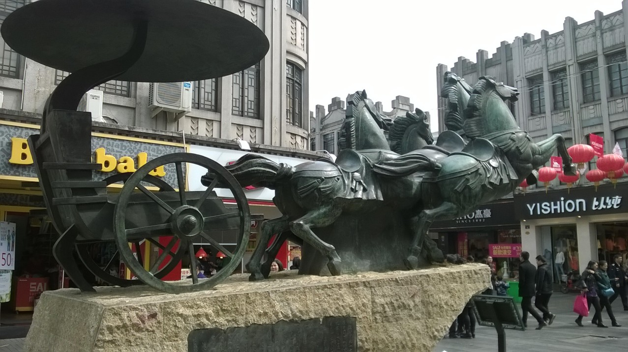 Statue of Five Horses in Wenzhou, China